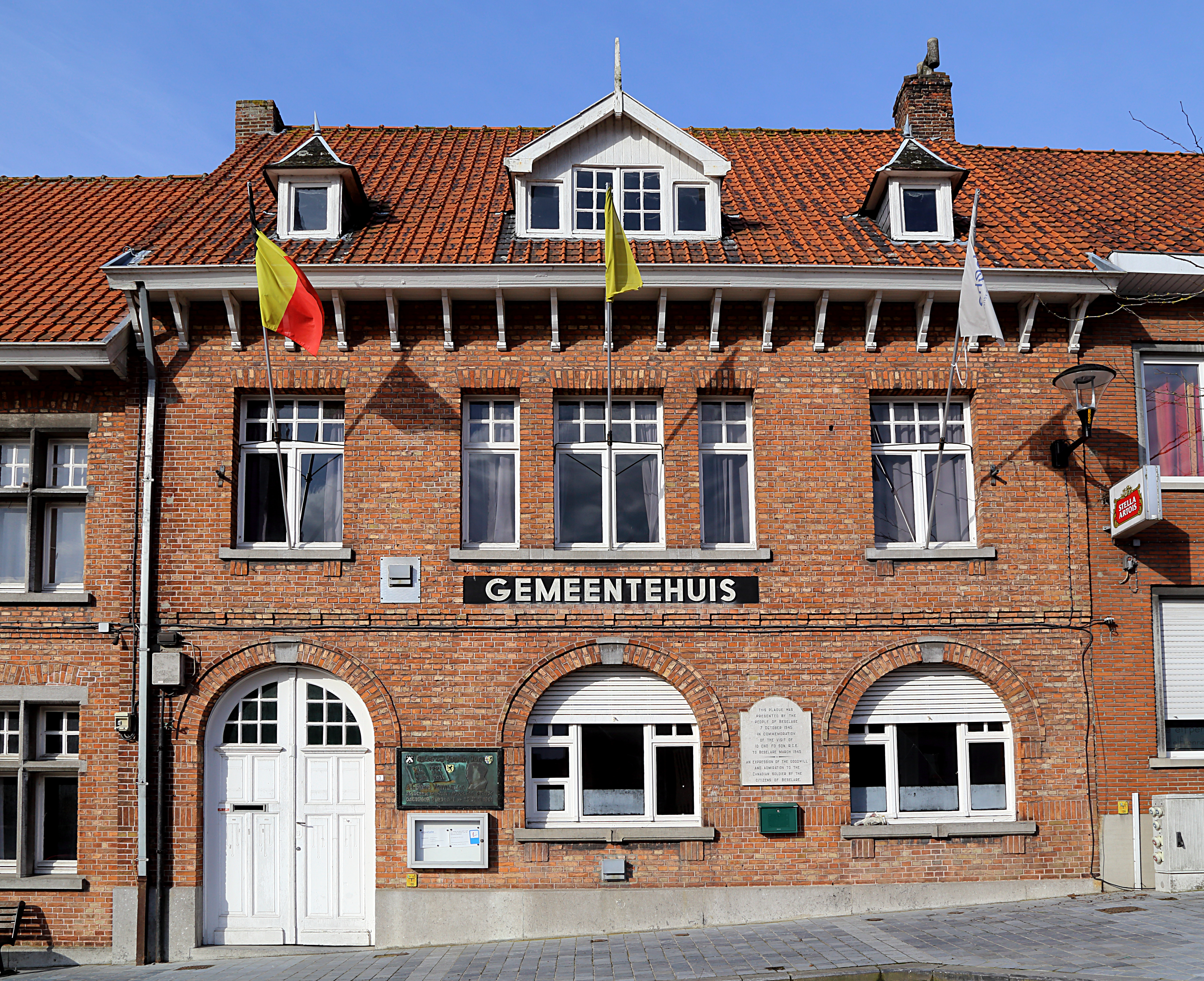 Former town hall of Beselare, Belgium.